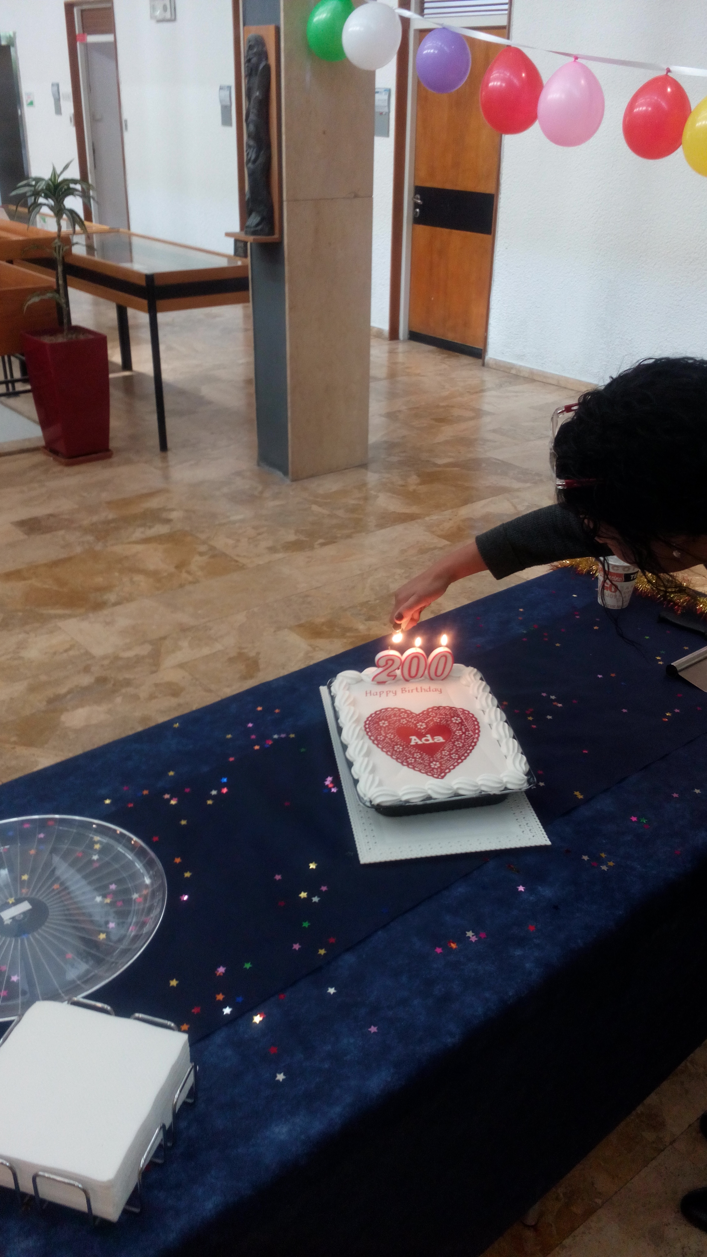 Ada Lovelace 200th Birthday Party